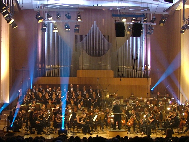 Picture of the WDR Radio Orchestra Cologne and the FILMharmonic Choir performing Symphonic Shades at the Funkhaus Wallrafplatz.